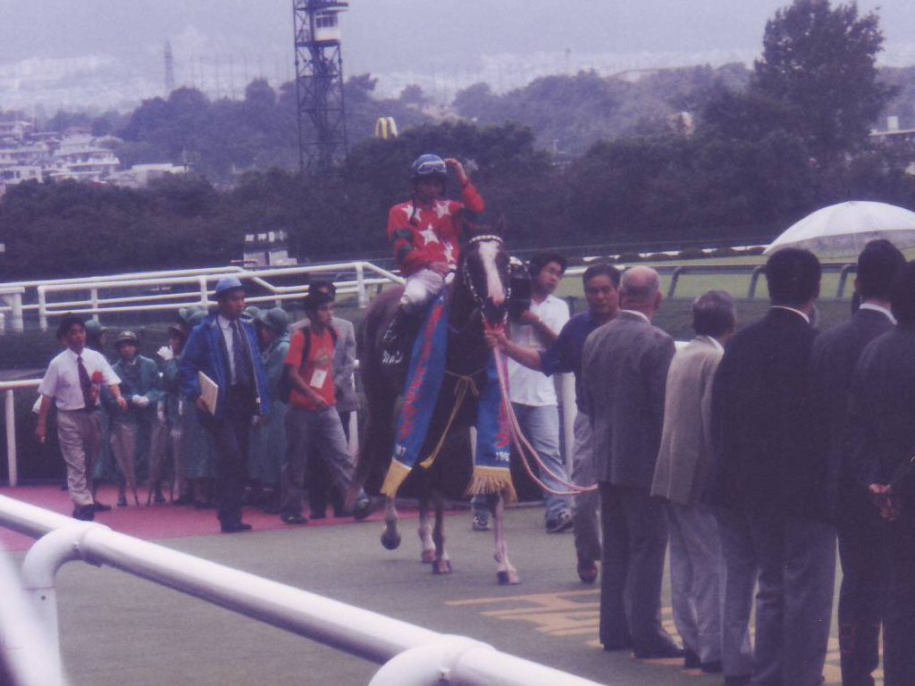 Shin Kaiun (Racehorse of Japan).